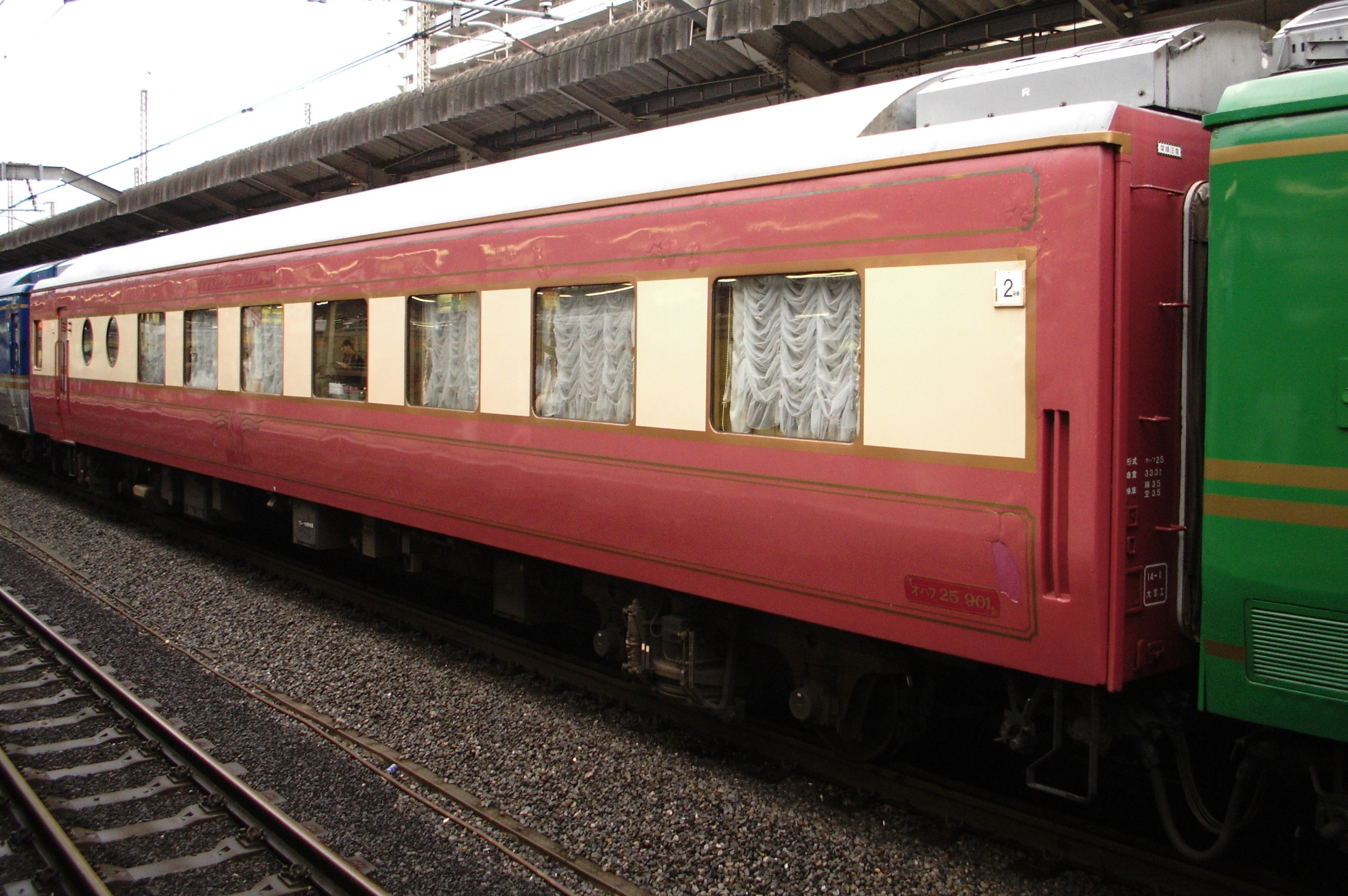 Yume Kūkan lounge car OHaFu 25 901 at Akabane Station